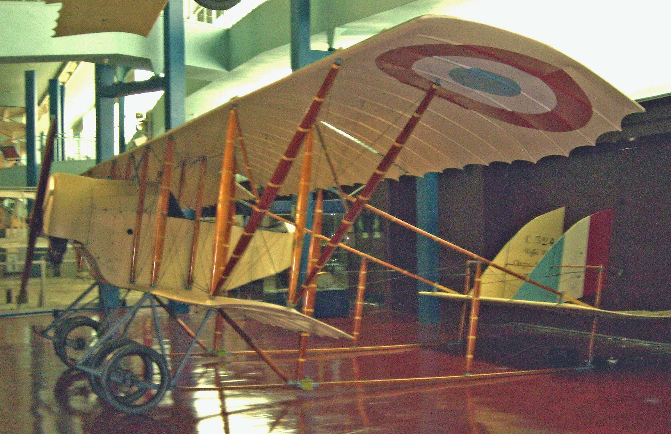 Caudron G.3 Biplane exhibited at the Musee de l'Air at Paris Le Bourget Airport.